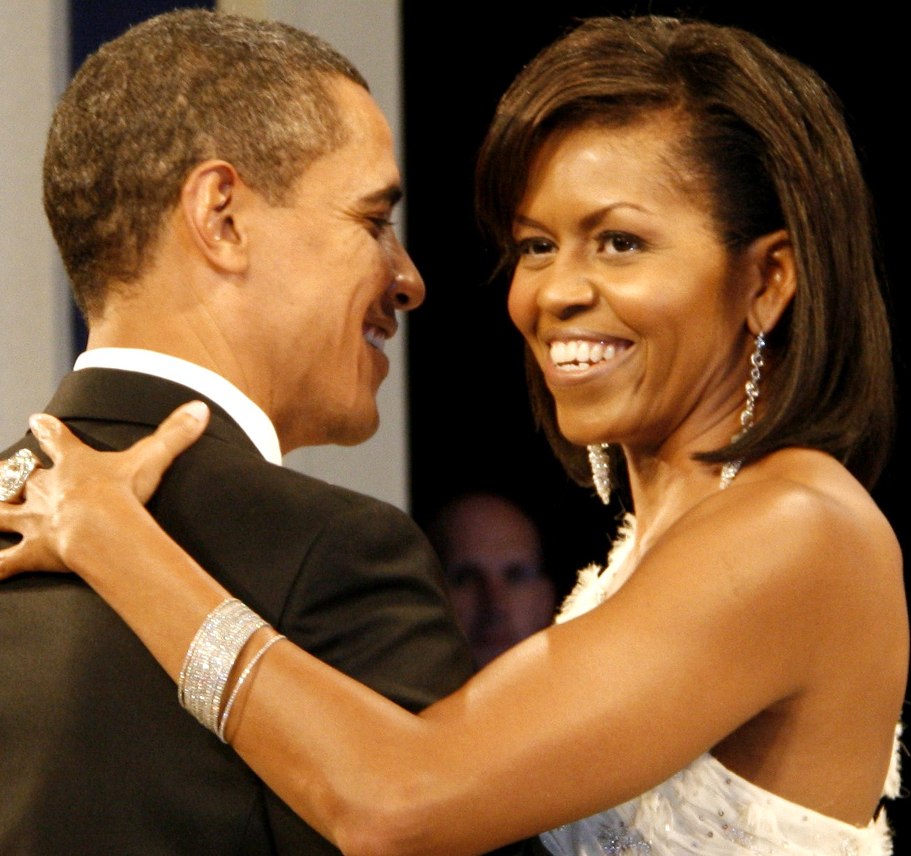 President Barack Obama and the First Lady Michelle Obama at the "Obama Home States Inaugural Gala" at the Walter E. Washington Convention Center